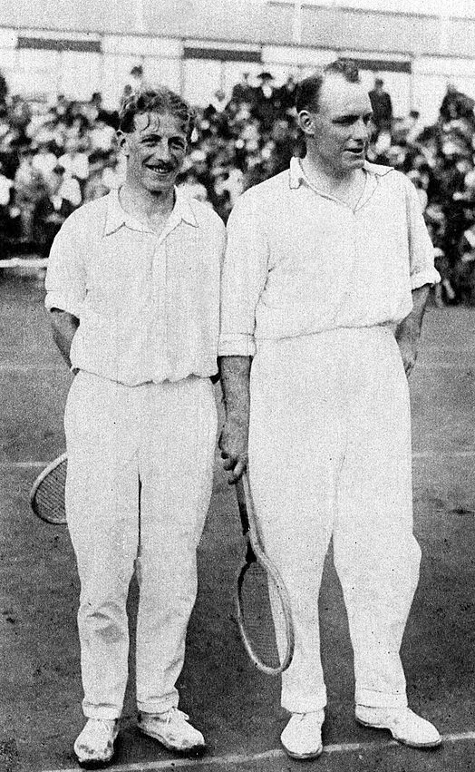 Sport, Tennis, Mens Doubles Final,1920 Olympic Games, Antwerp, Belgium, Noel Turnbull and Max Woosnam, Great Britain, Gold medal winners in the Mens Doubles